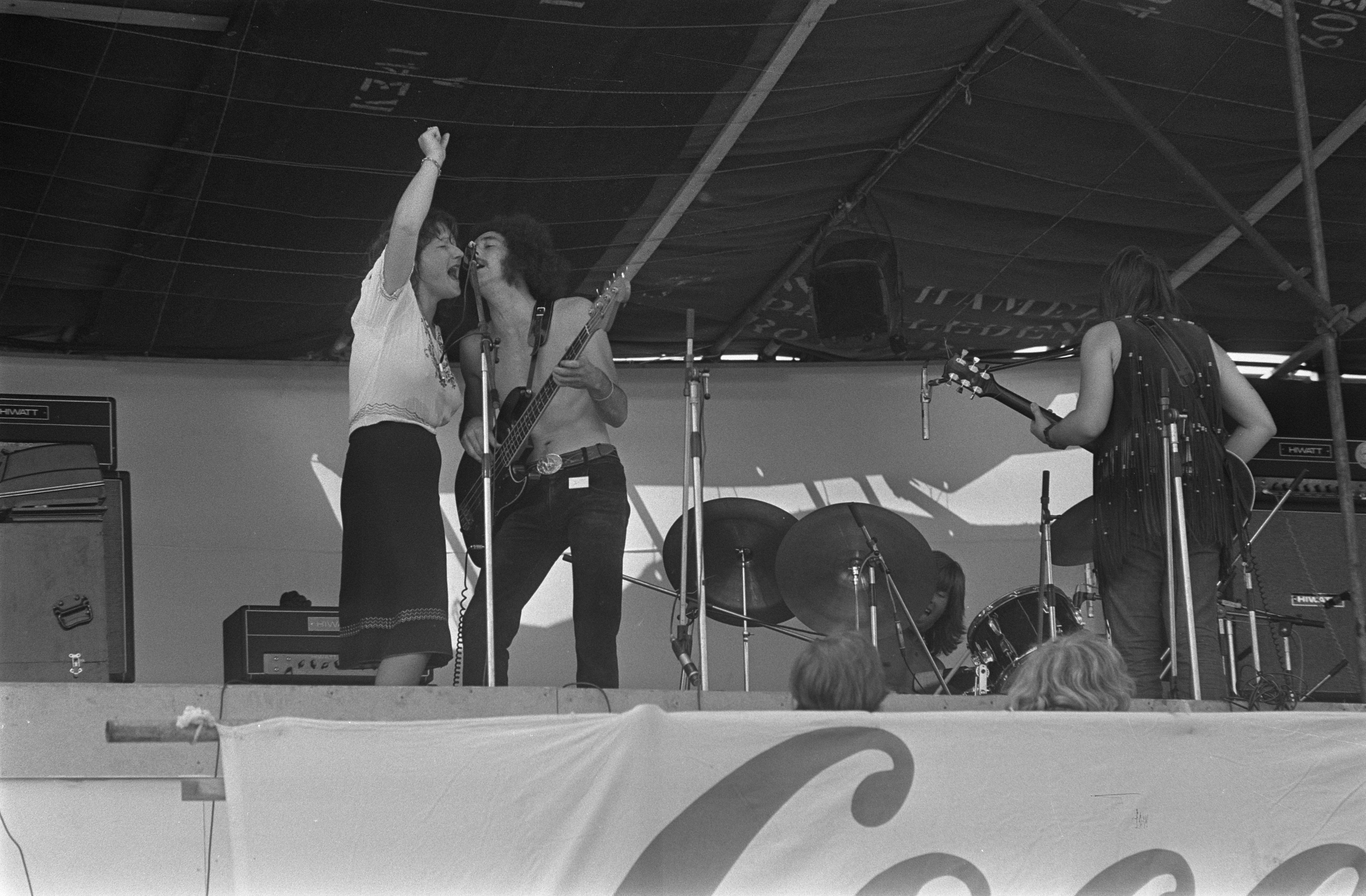 Stone the Crows during Kralingen Popfestival Rotterdam (Holland Pop Festival, 26 June 1970). (Not Jefferson Airplain (sic) as stated by source.) Left to right Maggie Bell, James Dewar, Colin Allen (drums), Les Harvey (backside)